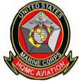 logo for Headquarters Marine Corps, United States Marine Corps Aviation